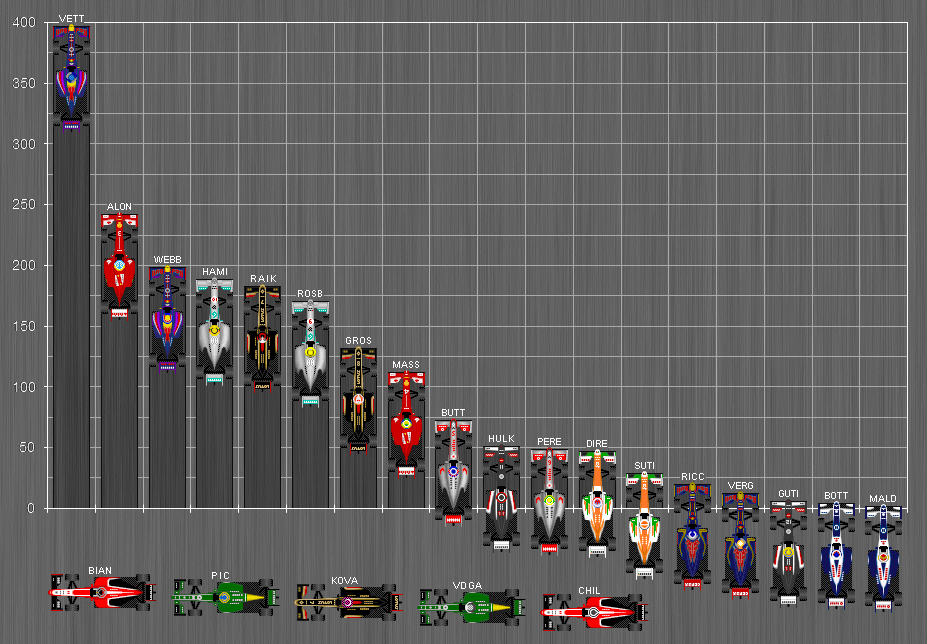 chart of final standings of the 2013 Formula One season